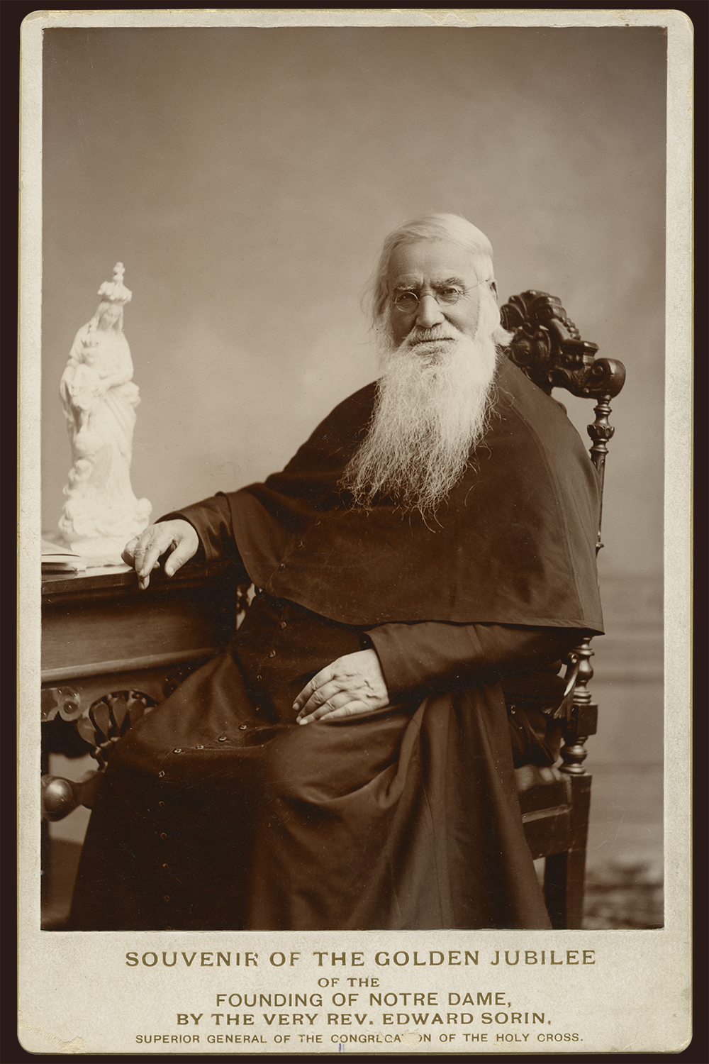 Father Edward Sorin CSC